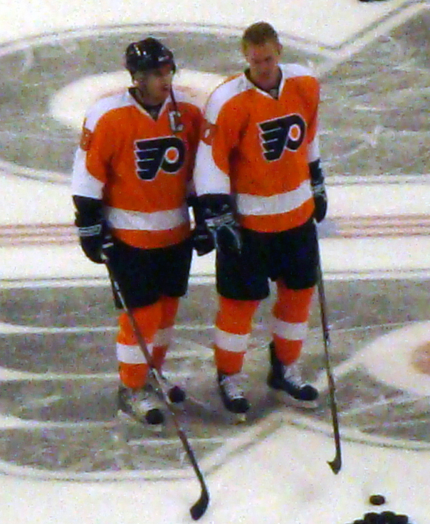 Mike Richards and Jeff Carter during the 2008–09 season